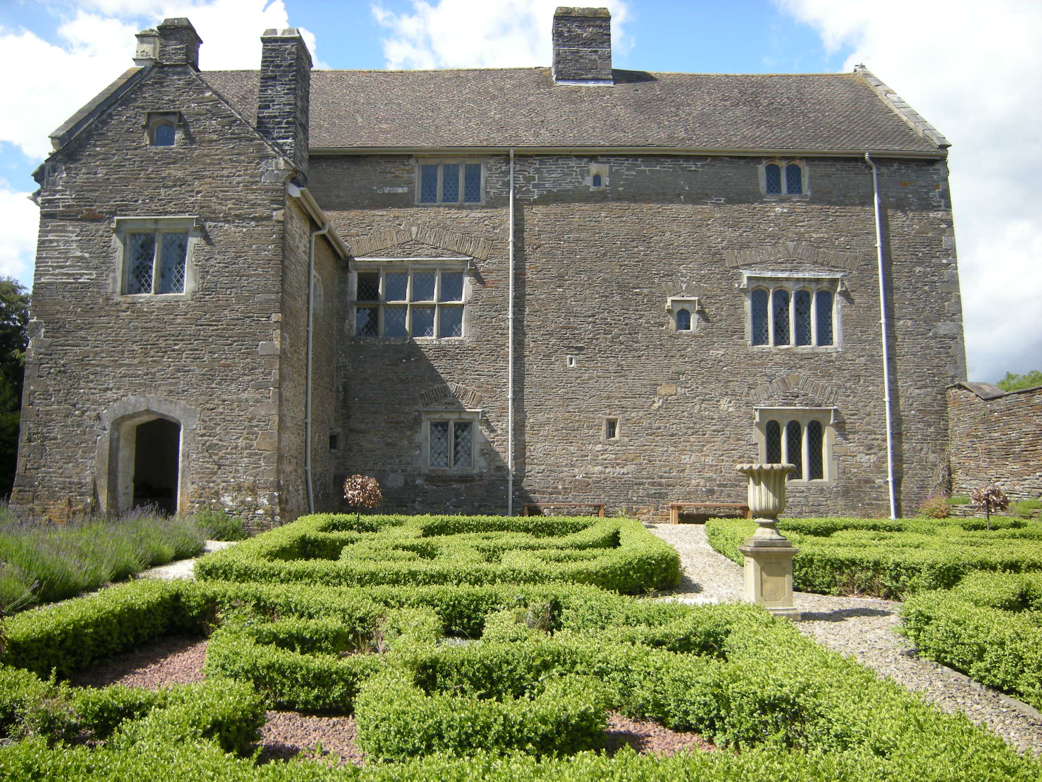 Llancaiach Fawr Manor and Gardens, Nelson, Caerphilly.